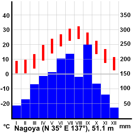 Climate diagram of Nagoya, Japan. Map based Image:ClimateTemplate.PNG Source:JMA data